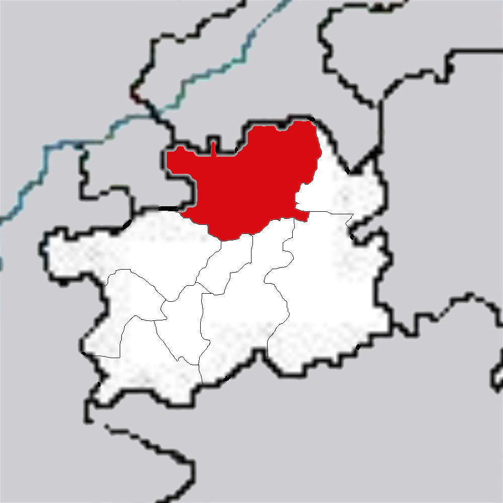 Maps of Guizhou Province of China